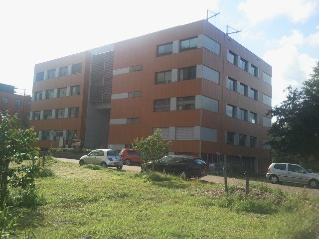 The headquarters of the Dutch Safety Board (DSB) (previously of the Dutch Transport Safety Board), located in The Hague, the Netherlands. Anna van Saksenlaan 50 2593 HT The Hague